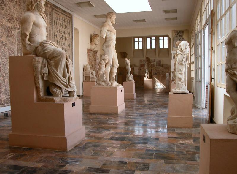 Statues in the Archeological Museum of Cherchell, Algeria